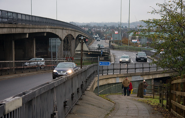 A41 - A406 Junction Looking at the west side of the roundabout that sits between these two arterial roads - the A41 passing above and the A406 passing below. The pedestrians on the right are following the maze of footpaths that lead to Brent Cross shopping centre.